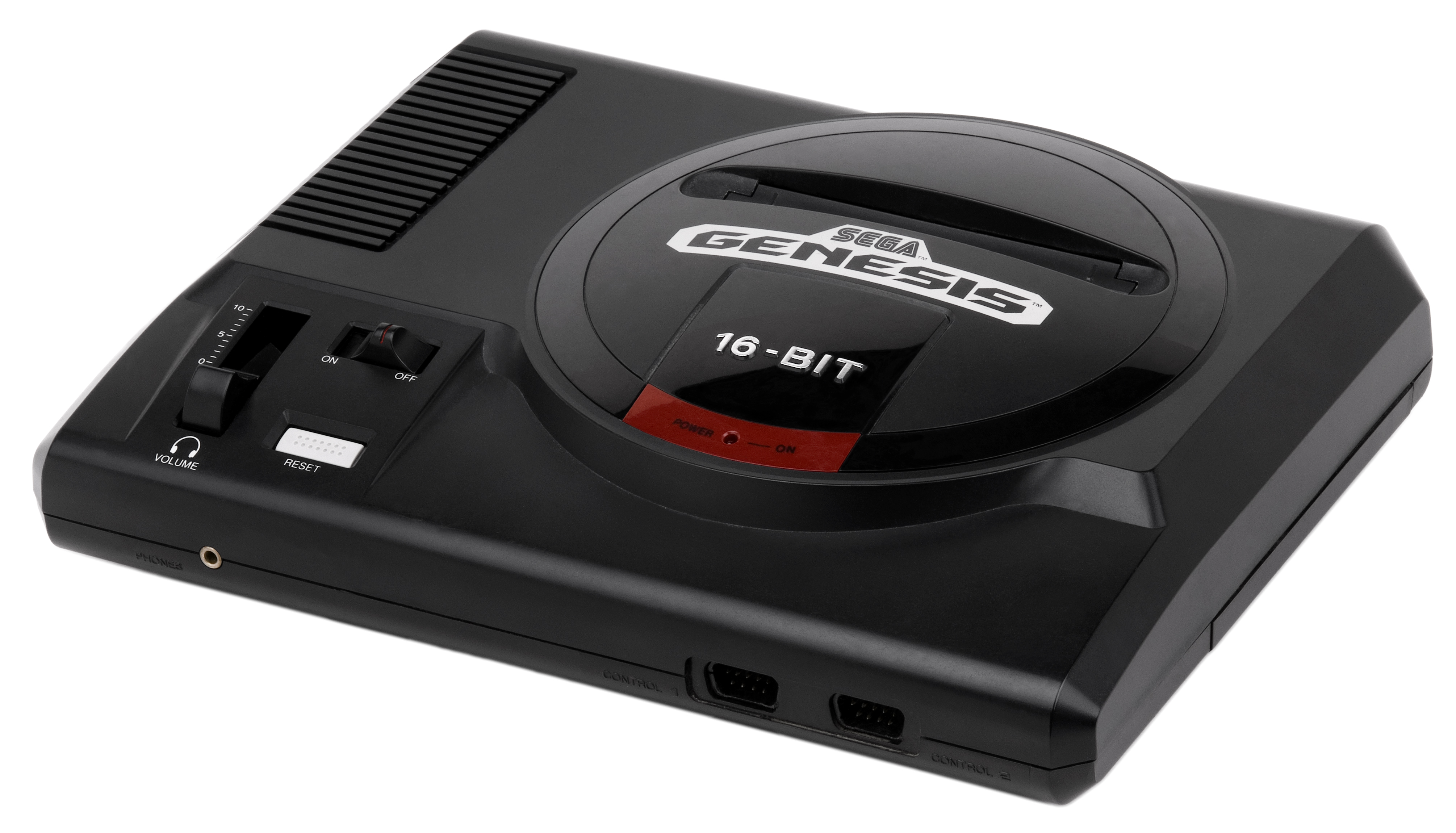 A North American model 1 Sega Genesis console.